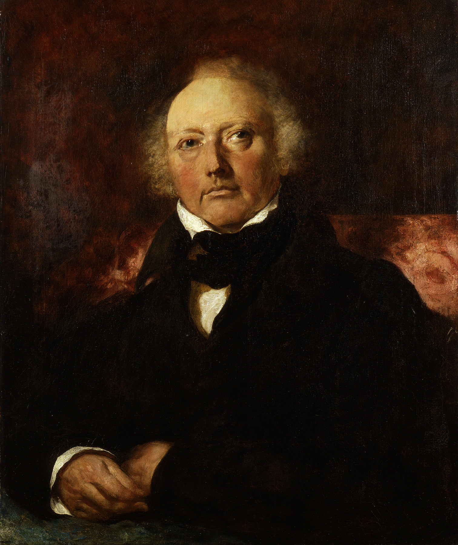 Half-length white haired figure, seen full face, hands resting on a ledge.